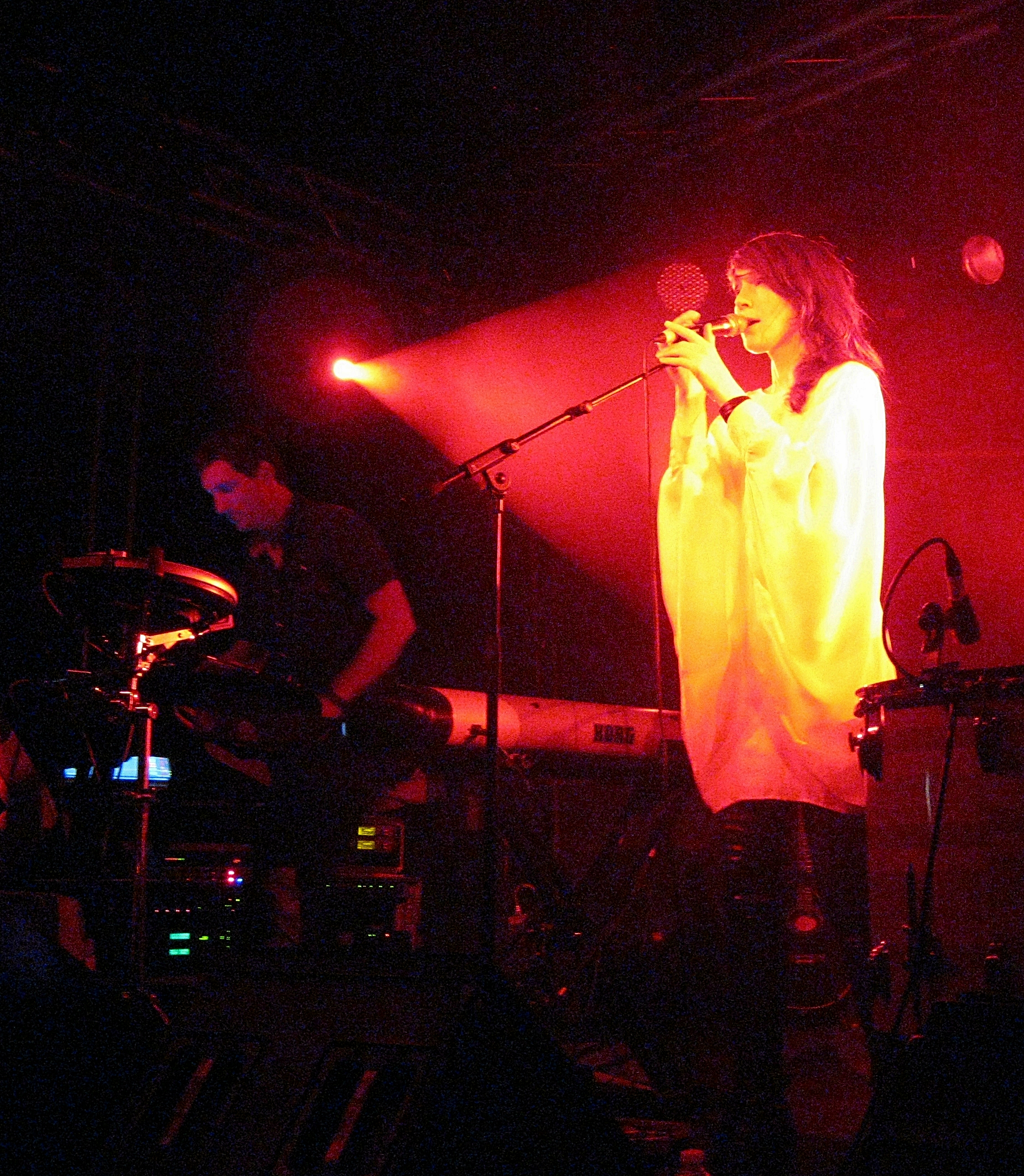 Lamb in concert, 2012